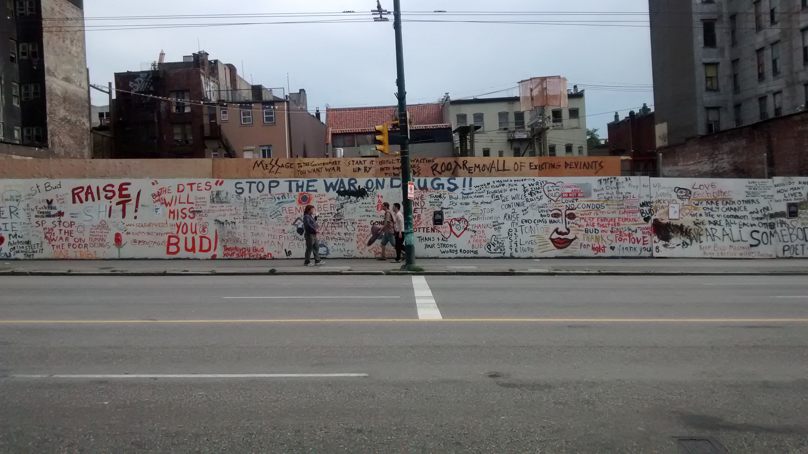 Memorial of Bud Osborn on a wall at the 100 block of East Hastings in Vancouver's Downtown Eastside